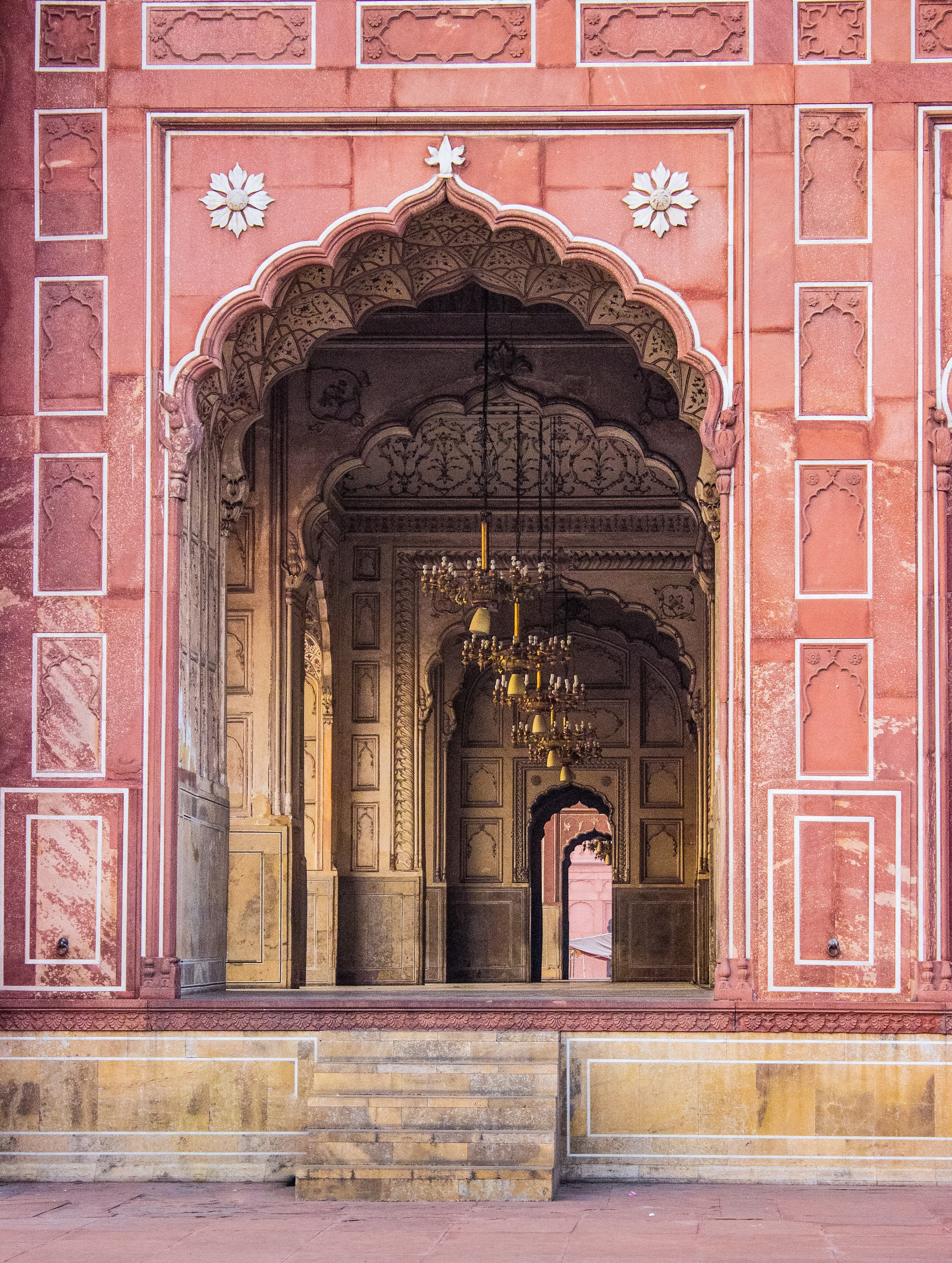 Badshahi Mosque (King’s Mosque) This is a photo of a monument in Pakistan identified as the PB-44